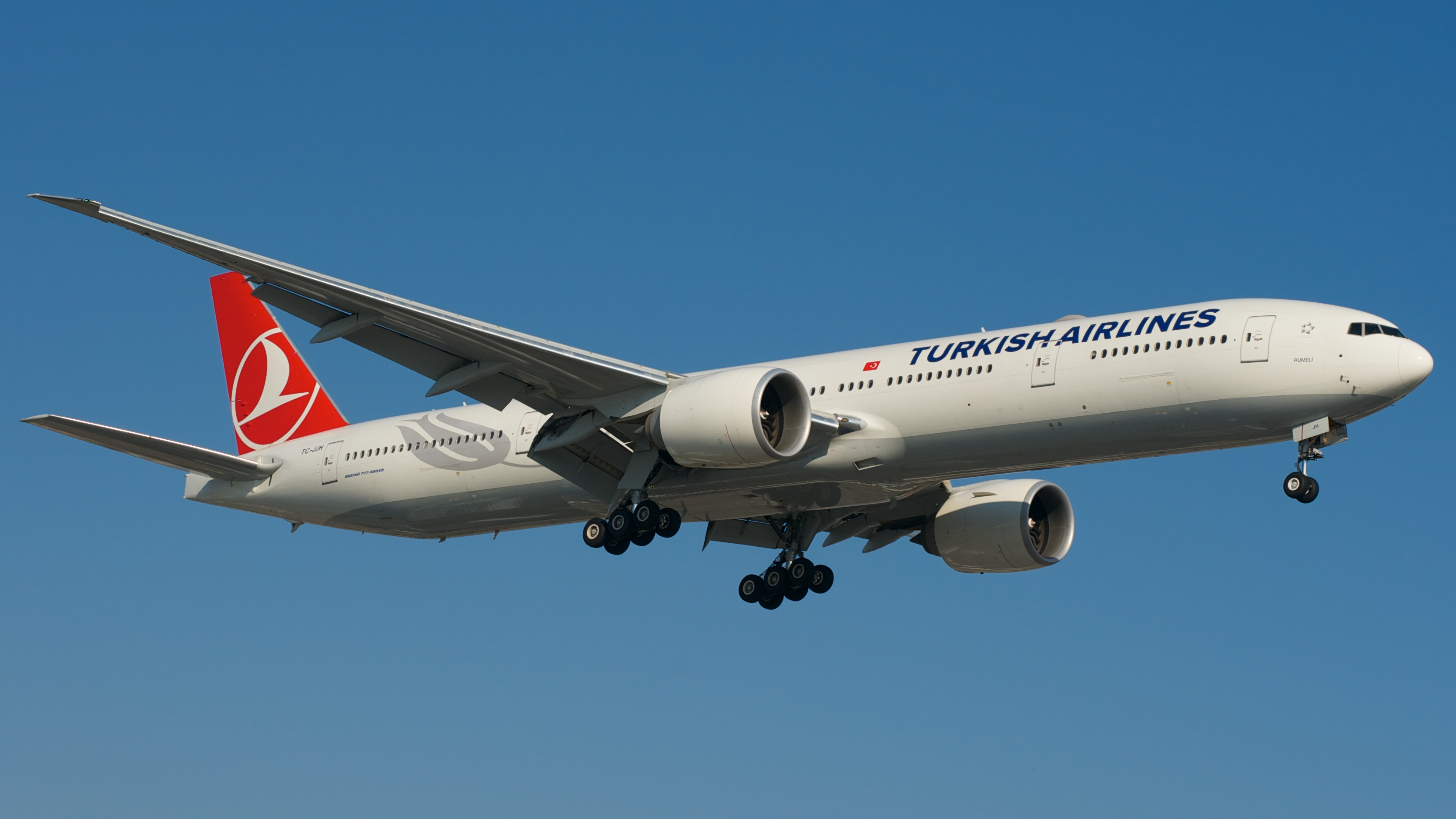 Rumeli on short final, Toronto Pearson